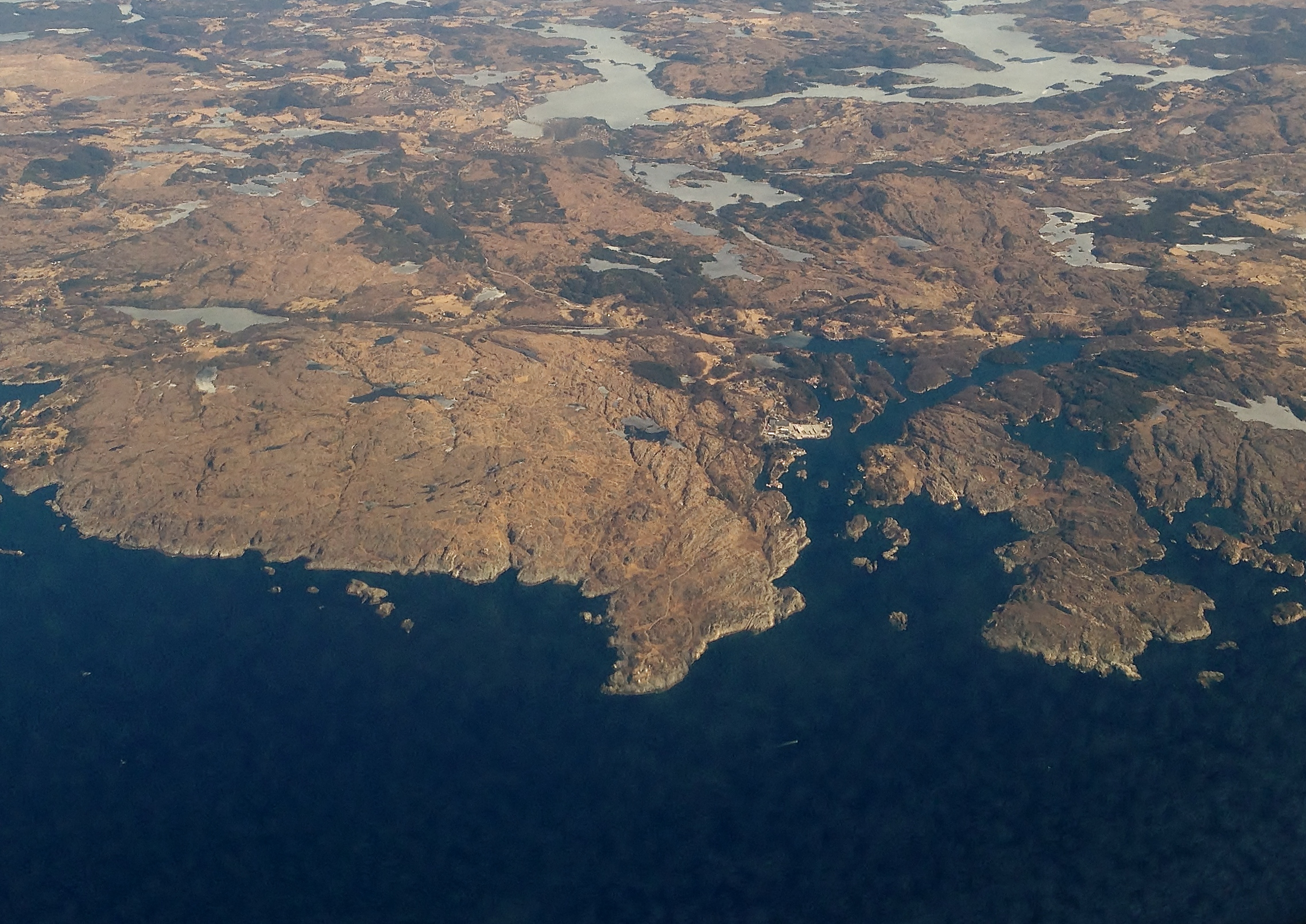 Ryvarden lighthouse (the central headland), Sveio, Rogaland, Norway, from the air